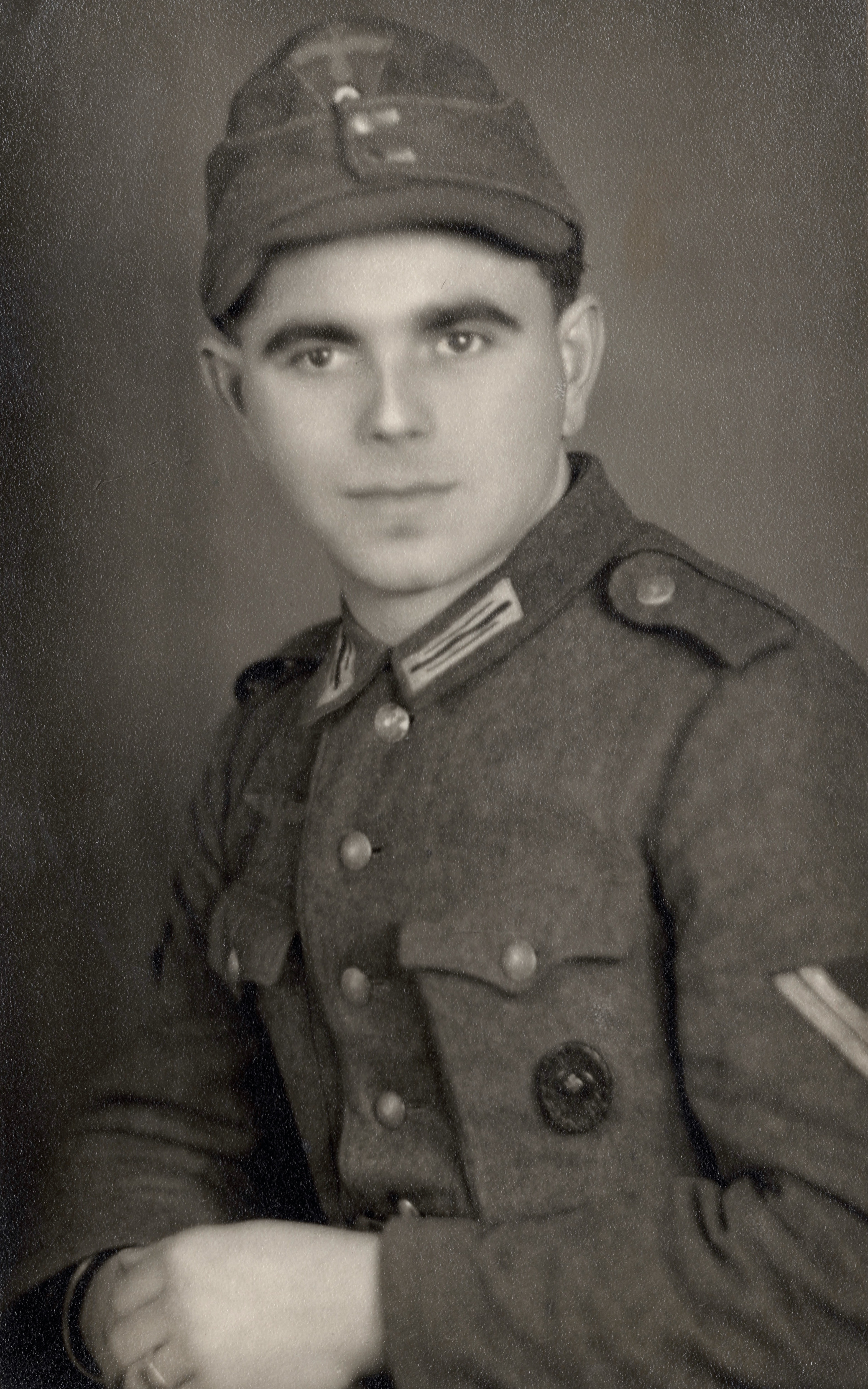 Heinrich Felder, Obergefreiter 54. Gebirgs-Pionier-Bataillon, 1. Gebirgsdivision "Edelweiss". The Photograph was taken in Mittenwald in January 1945 (Heinrich Felder was Killed in action in Steiermark, April 1945)